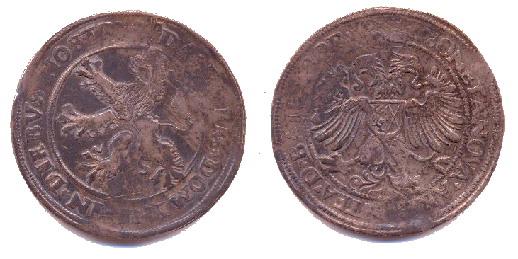 Batenburg Taler, Willem of Bronckhorst